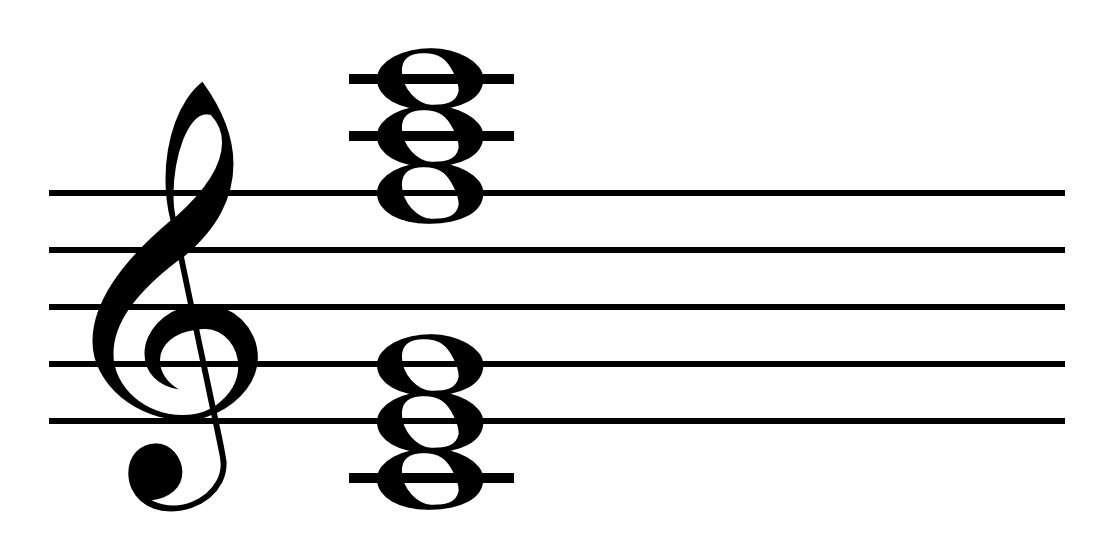 Bitonal polychord: F major on top of C major.